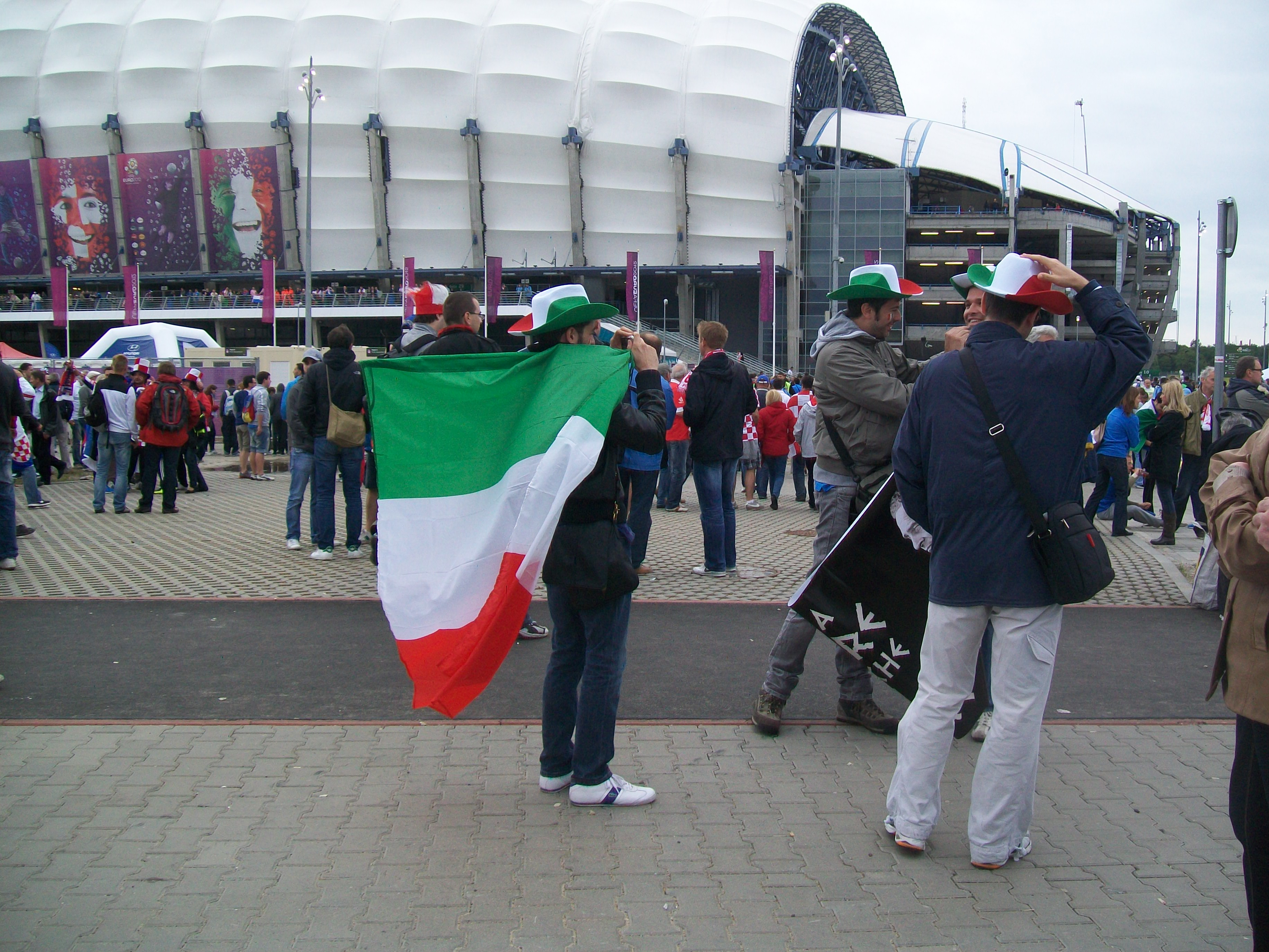 Italian supporters before Croatia - Italy match during Euro 2012, Poznań, June 14